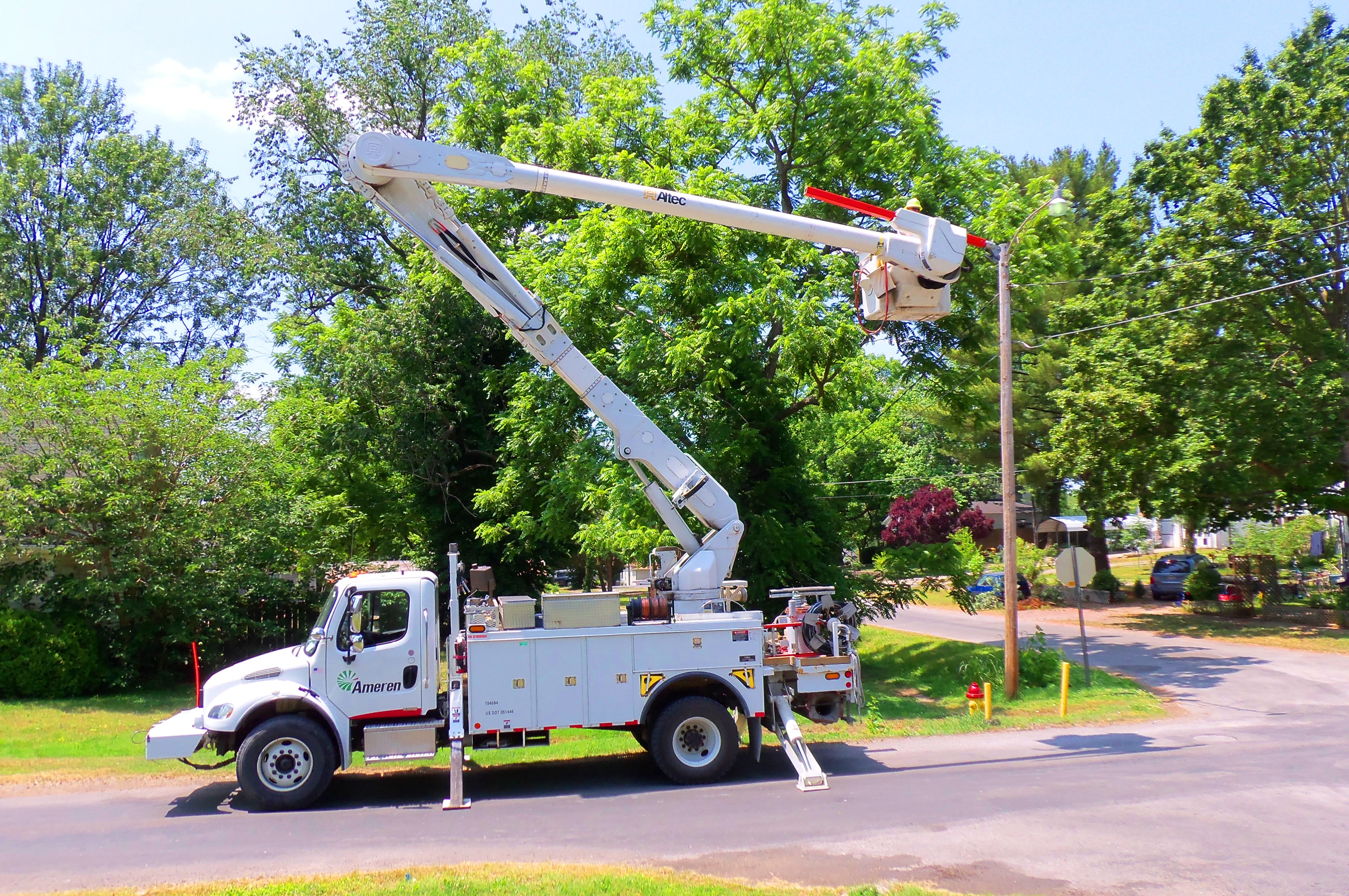 Ameren technician repairing a streetlight.